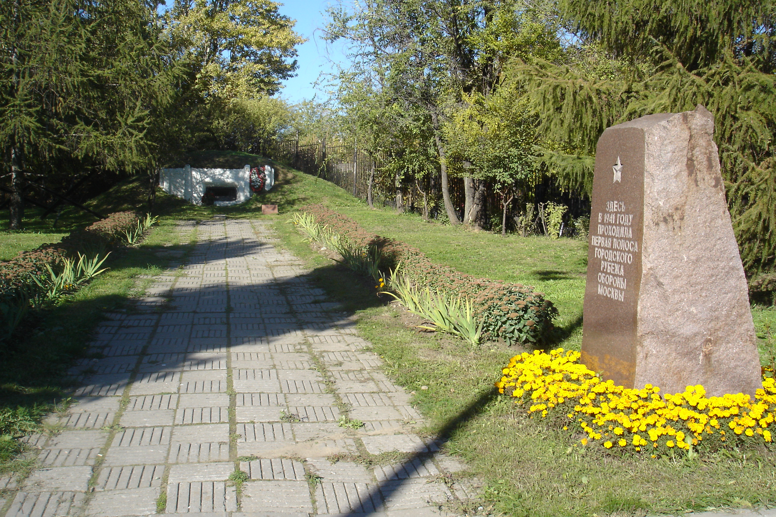 WW2 pillbox and memorial at the Obrucheva street, Moscow, near bld. #27. It is written in